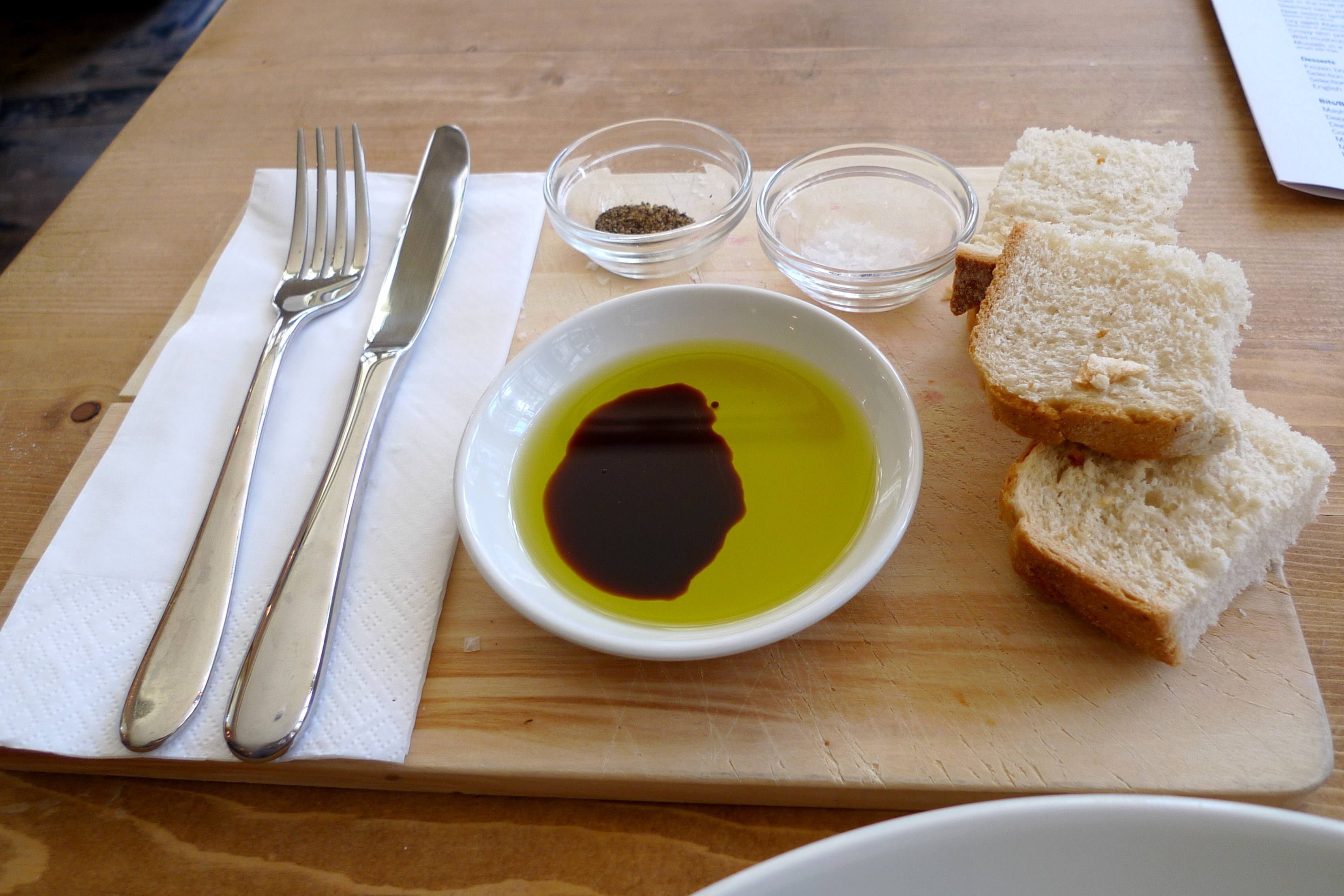 The cutlery is presented on a board with some bread and olive oil/balsamic vinegar, as well as bowls for salt and pepper. Not a separate side order, just nice presentation. At The Coach Makers, Marylebone Lane.